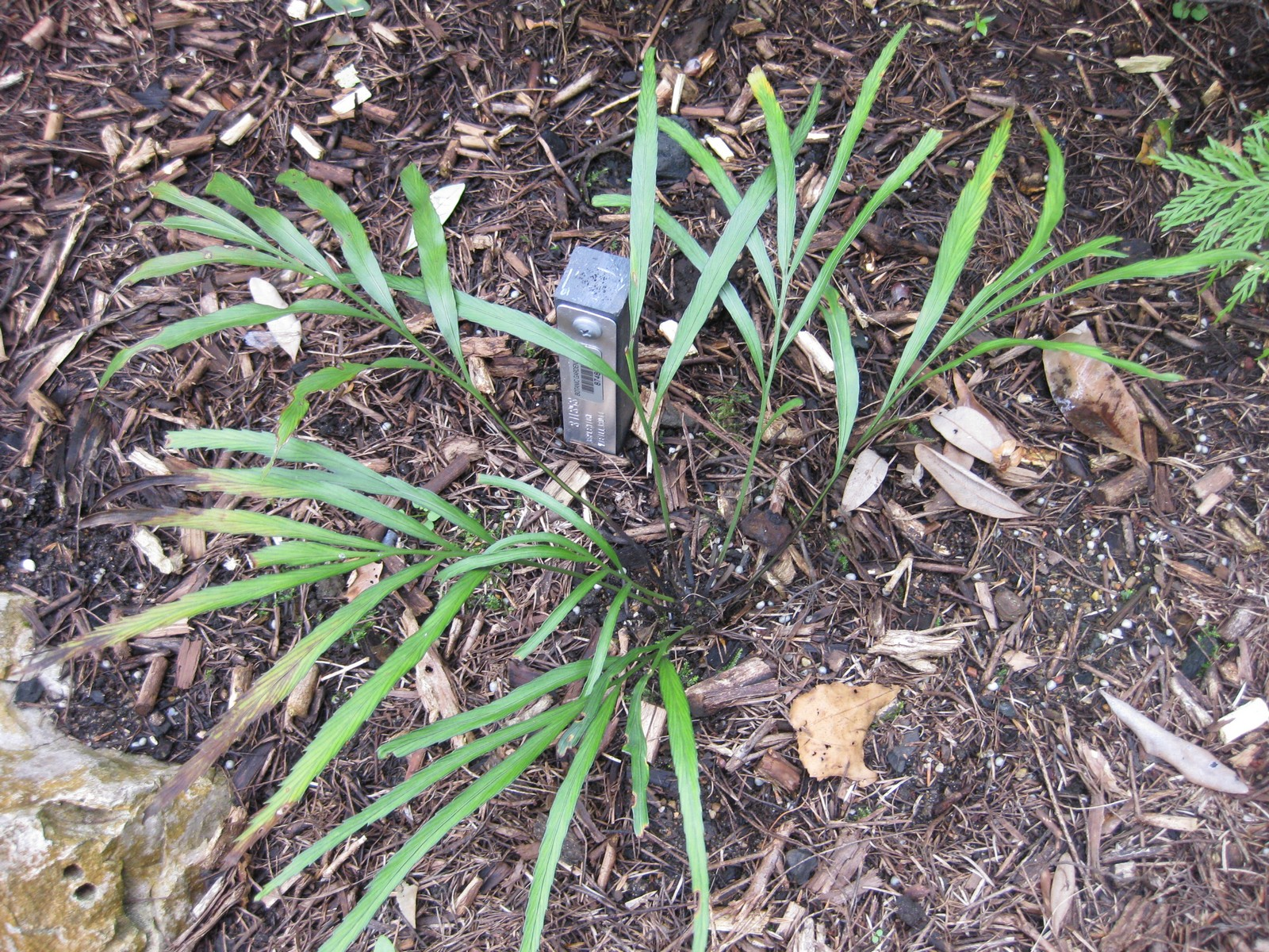 Photographed at the Royal Botanic Gardens Sydney (Australia) in January